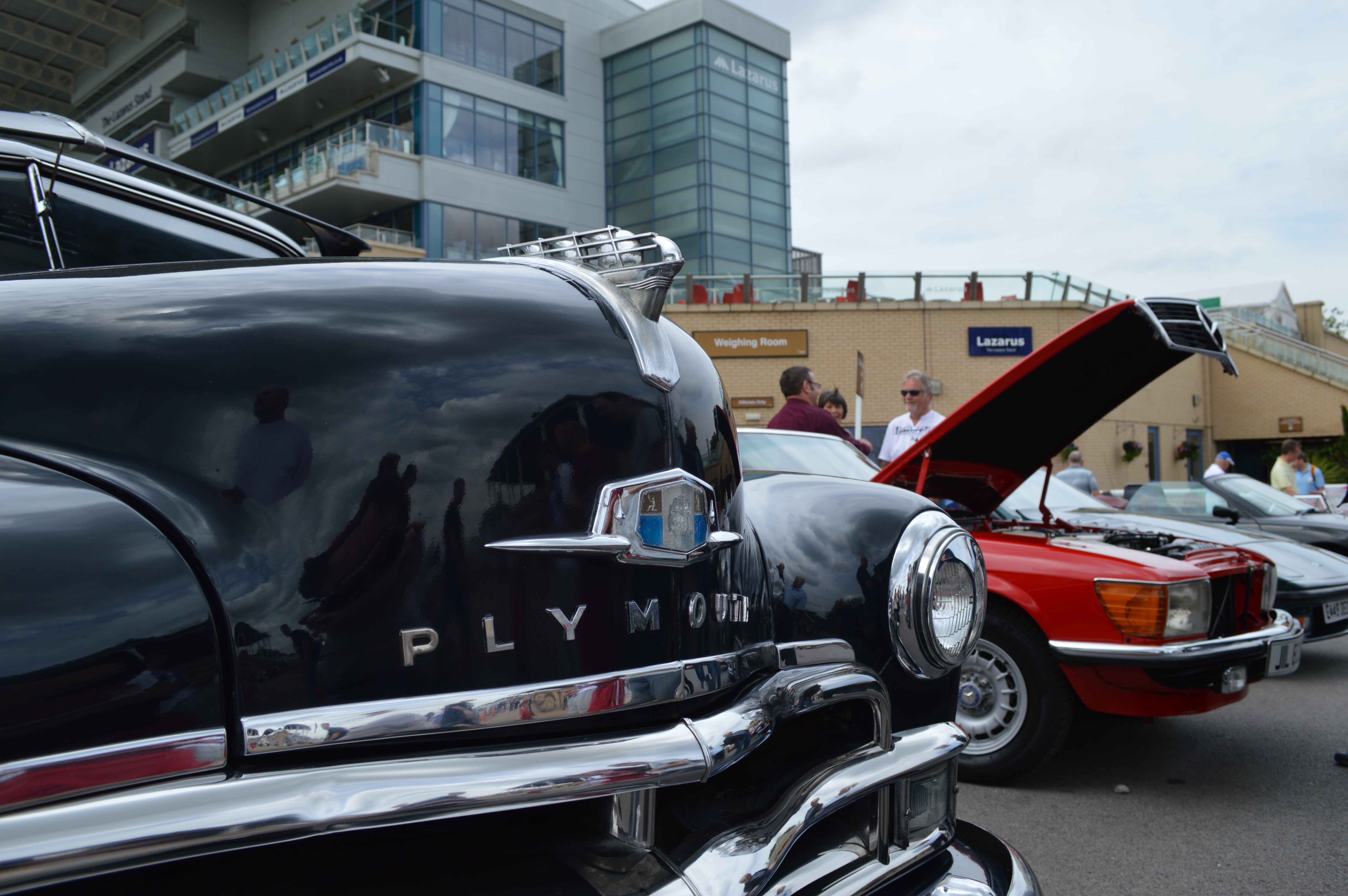 Plymouth